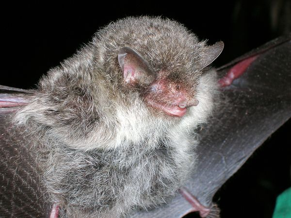 Ashy-gray tube-nosed bat in flight